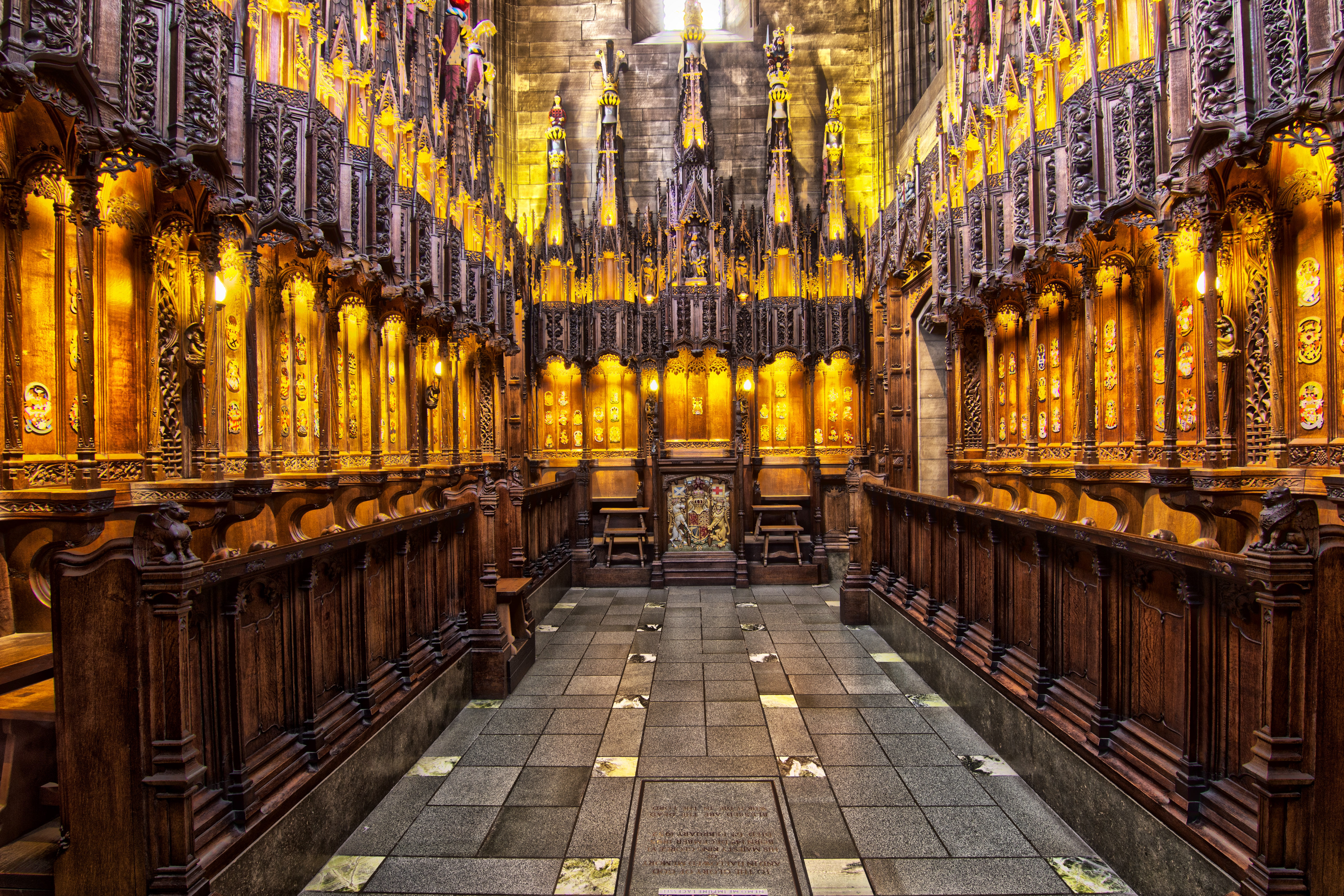 St Giles' Cathedral Wikidata has entry Q1547466 with data related to this item.